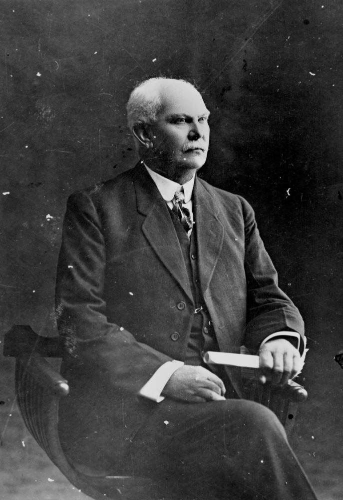 Hon. George Silas Curtis, 1845-1922. Born 1845 at Tamworth N.S.W. Married Dorinda Ann Parker at Rockhampton. Auctioneer. Member of the Legislative Assembly for Rockhampton 1893-1902. Member of the Legislative Council for Rockhampton 1914-1922. Died 6 October 1922 at Sydney. (Description supplied with photograph.).